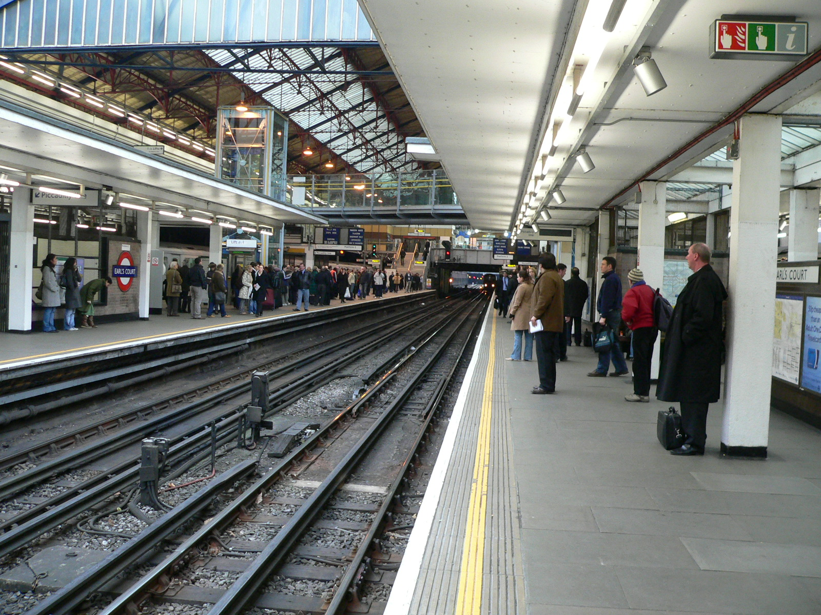 The District Line platforms 2 and 3 at Earl's Court tube station.